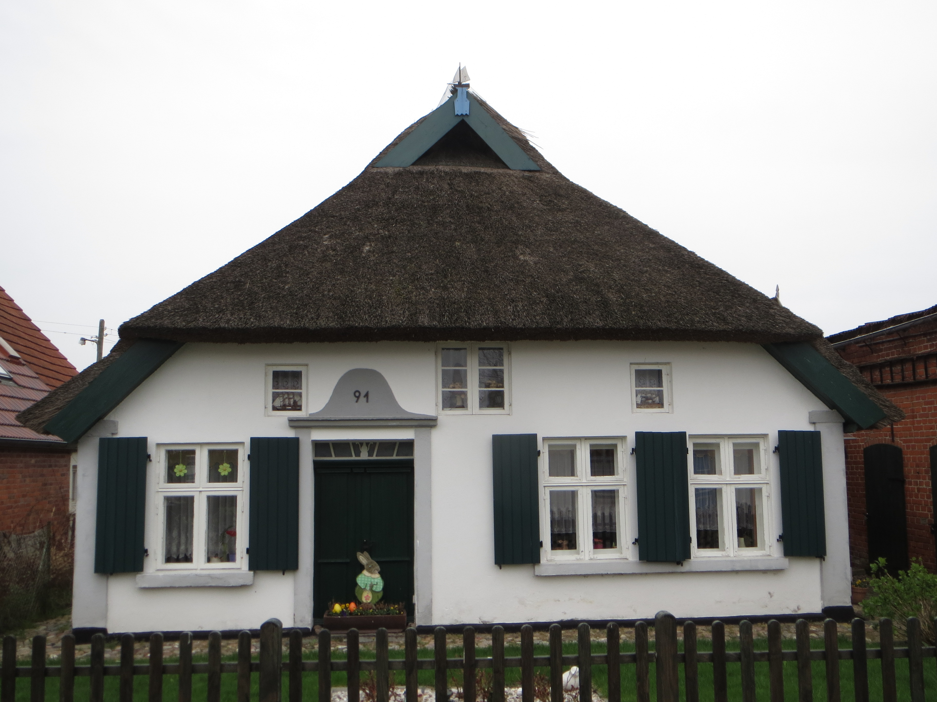 Cultural heritage monuments in Greifswald-Wieck: Dorfstr. 91